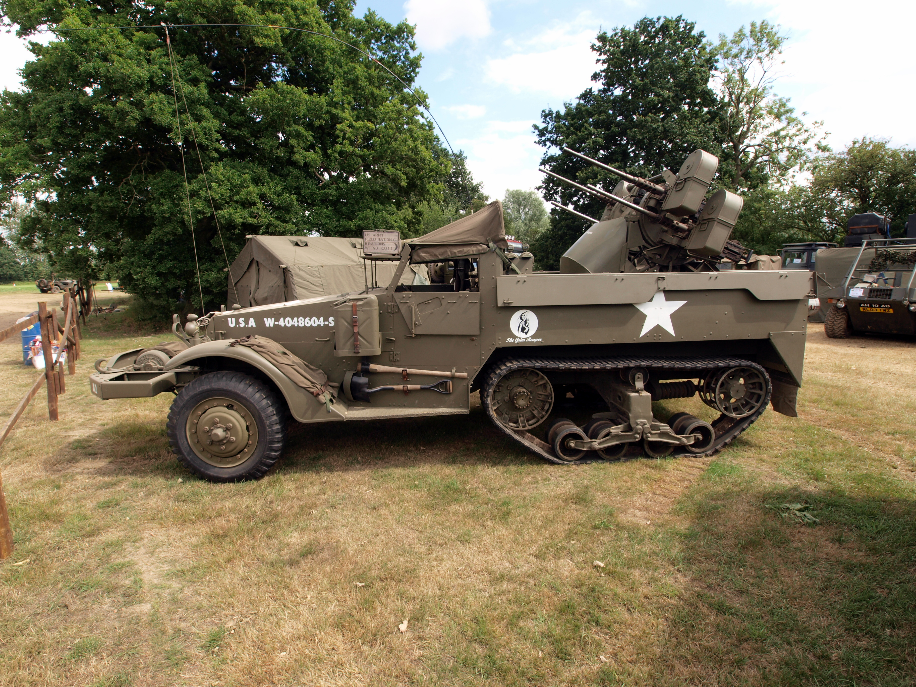 White halftrack The Grim Reaper, hoodno USA W-4048604-S